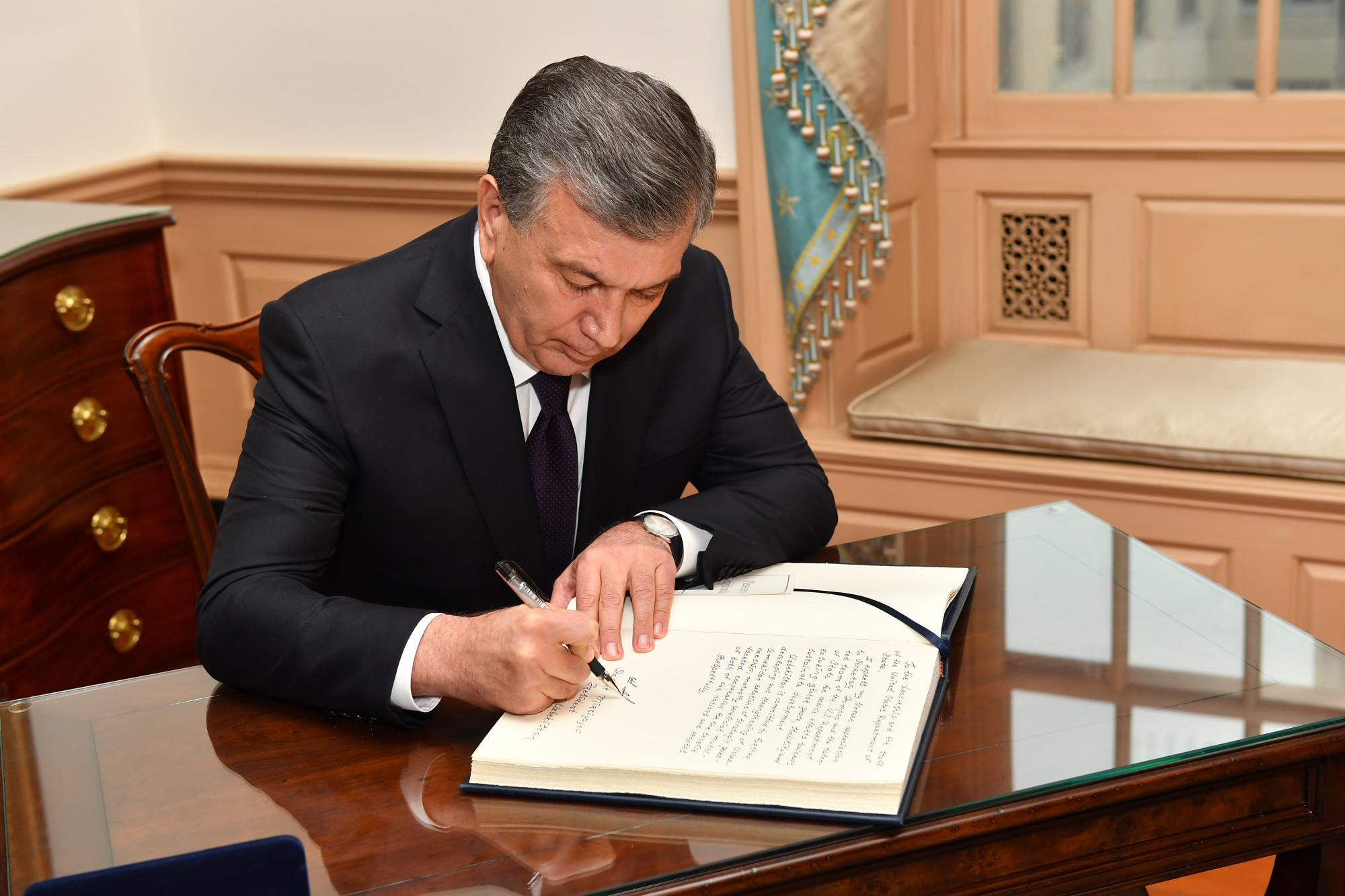 President of Uzbekistan Shavkat Mirziyoyev signs the guest book before meeting with U.S. Secretary of State Mike Pompeo at the Department of State in Washington, D.C., on May 17, 2018. [State Department photo/ Public Domain]